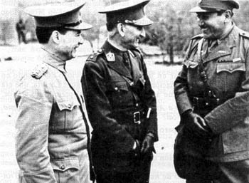 José Félix Estigarribia and Enrique Peñaranda in Chaco (1935)